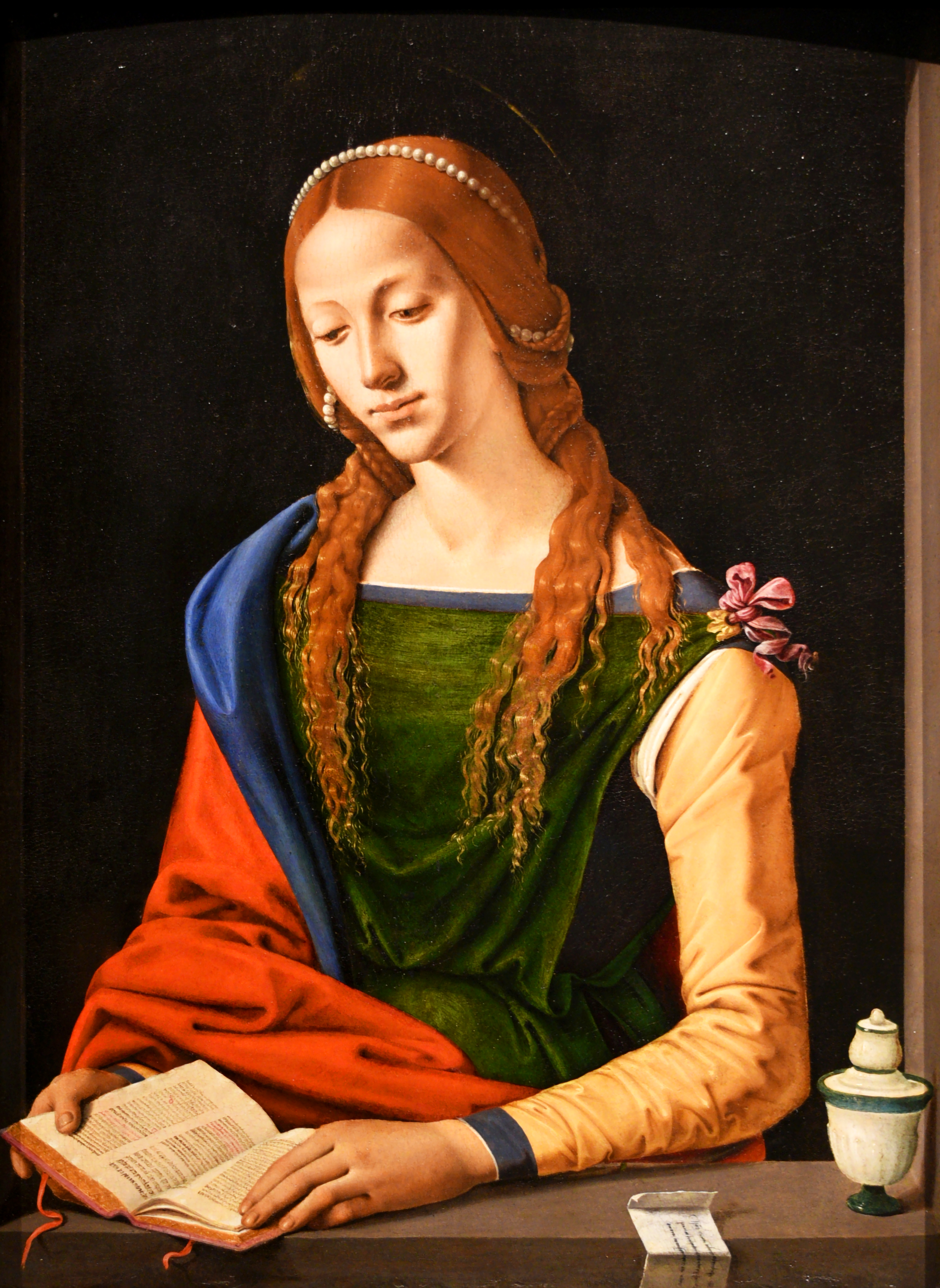 Mary Magdalene (Piero di Cosimo)